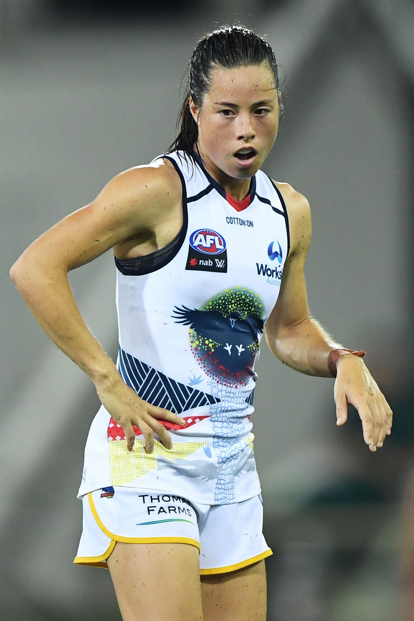 Sophie Li of Adelaide during the 2019 AFL Women's practice match between the Adelaide Football Club and Fremantle Football Club at TIO Stadium on January 19, 2019 in Darwin Australia.